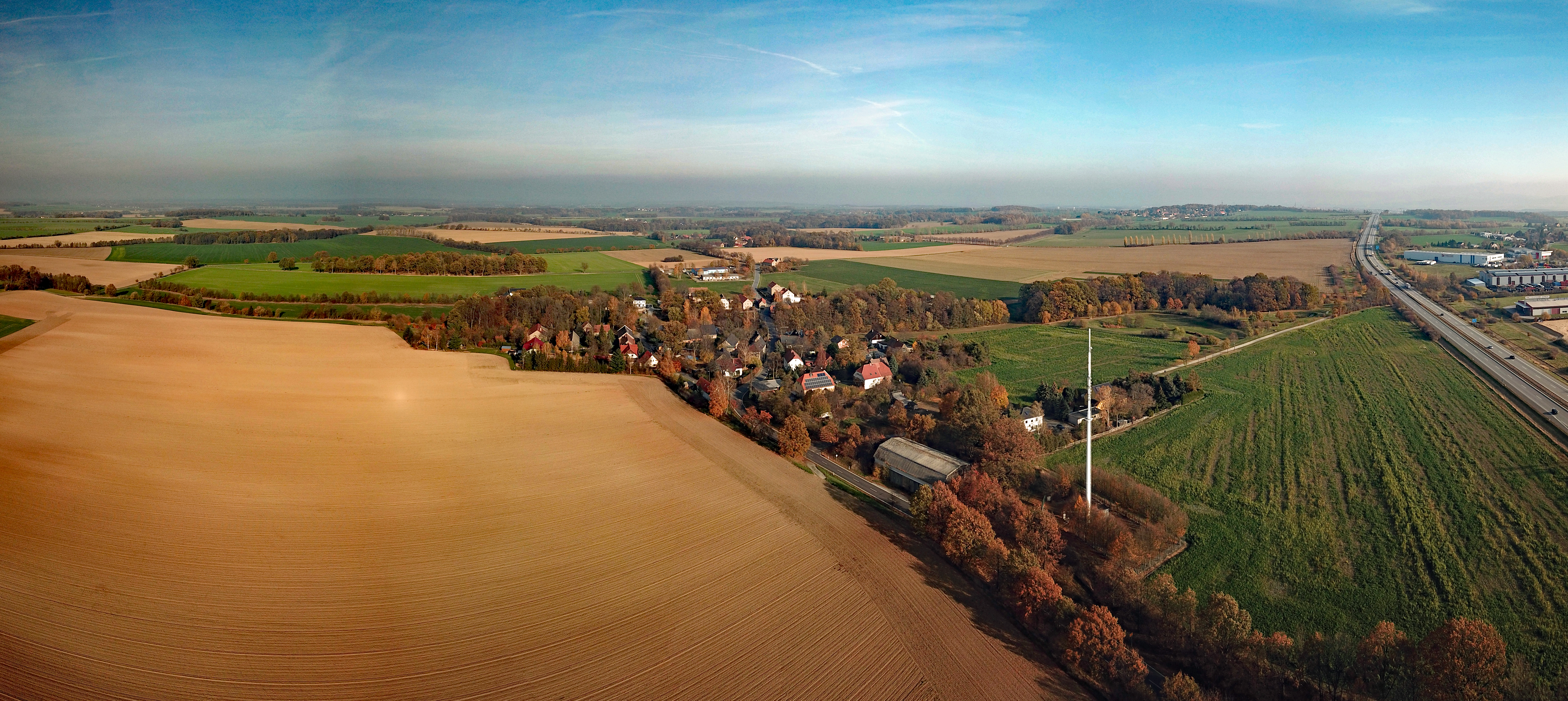 Bolbritz (Bautzen, Saxony, Germany) Hornjoserbsce: Powětrowy wobraz Bolborc